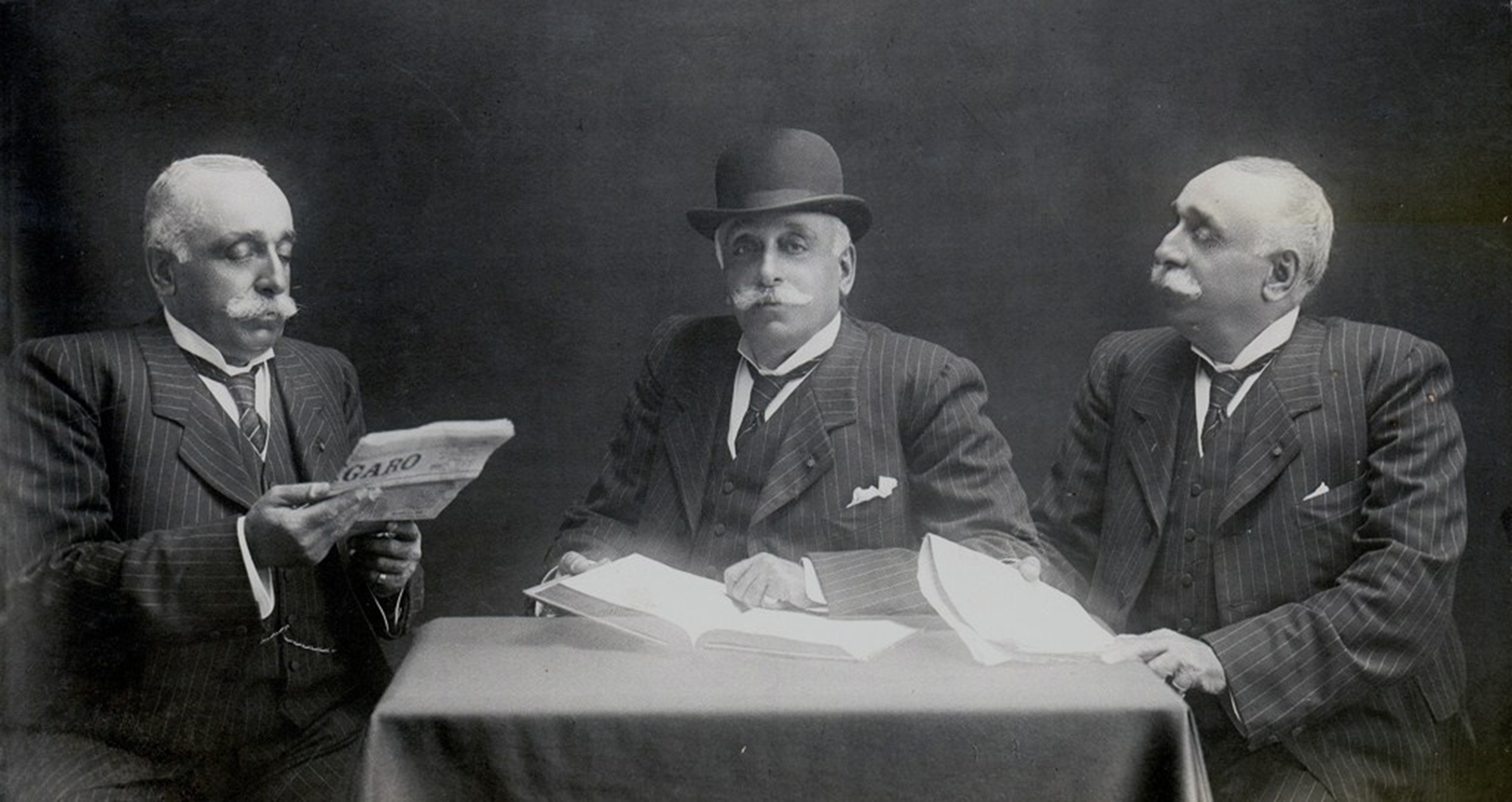 Boghos Nubar, a photomontage of the man with three faces: the diplomat, right, observes the businessman, left, and the philanthropist, center.